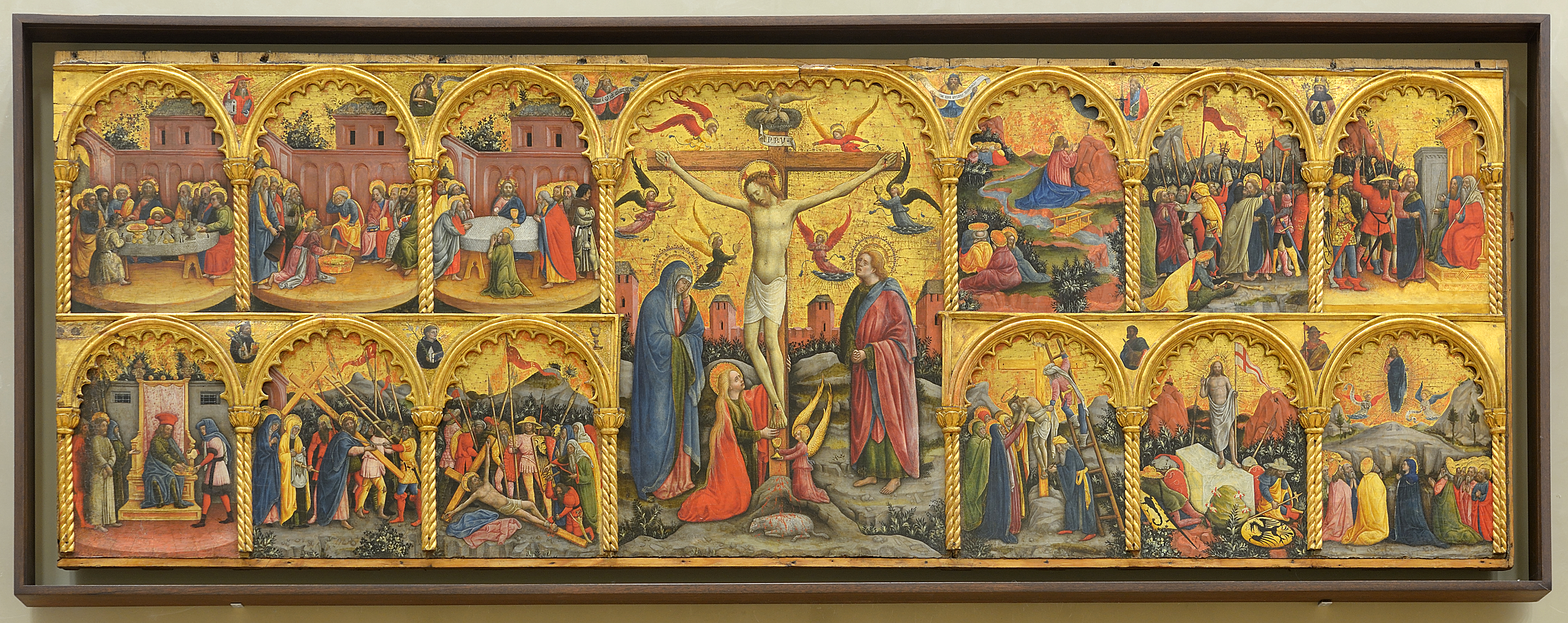 Polittico della Passione by Antonio Vivarini in the Galleria Franchetti,Ca' d'Oro, Venice.